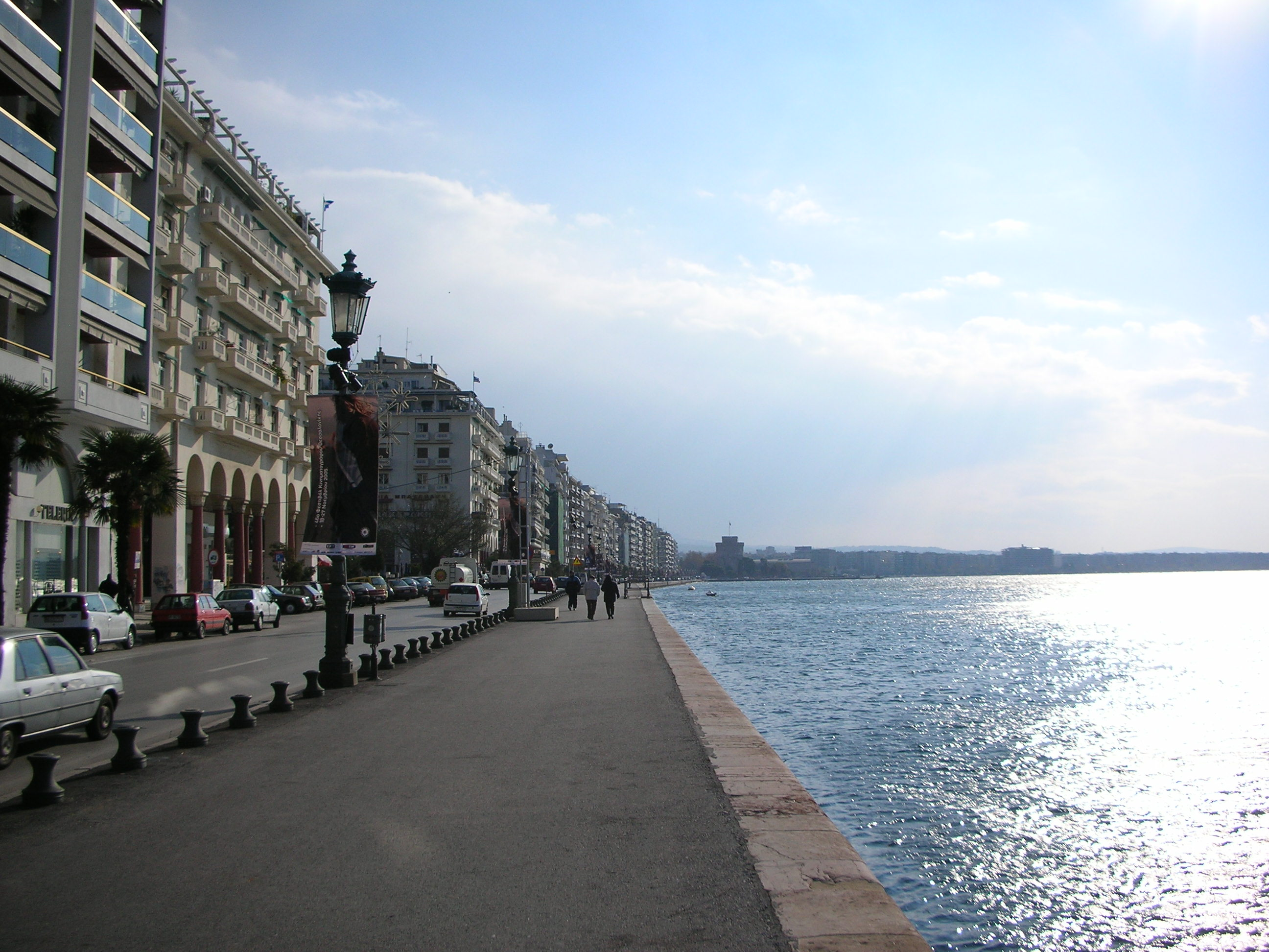 The sea front, Thessaloniki, Greece. The White Tower of Thessaloniki can be seen in the distance.